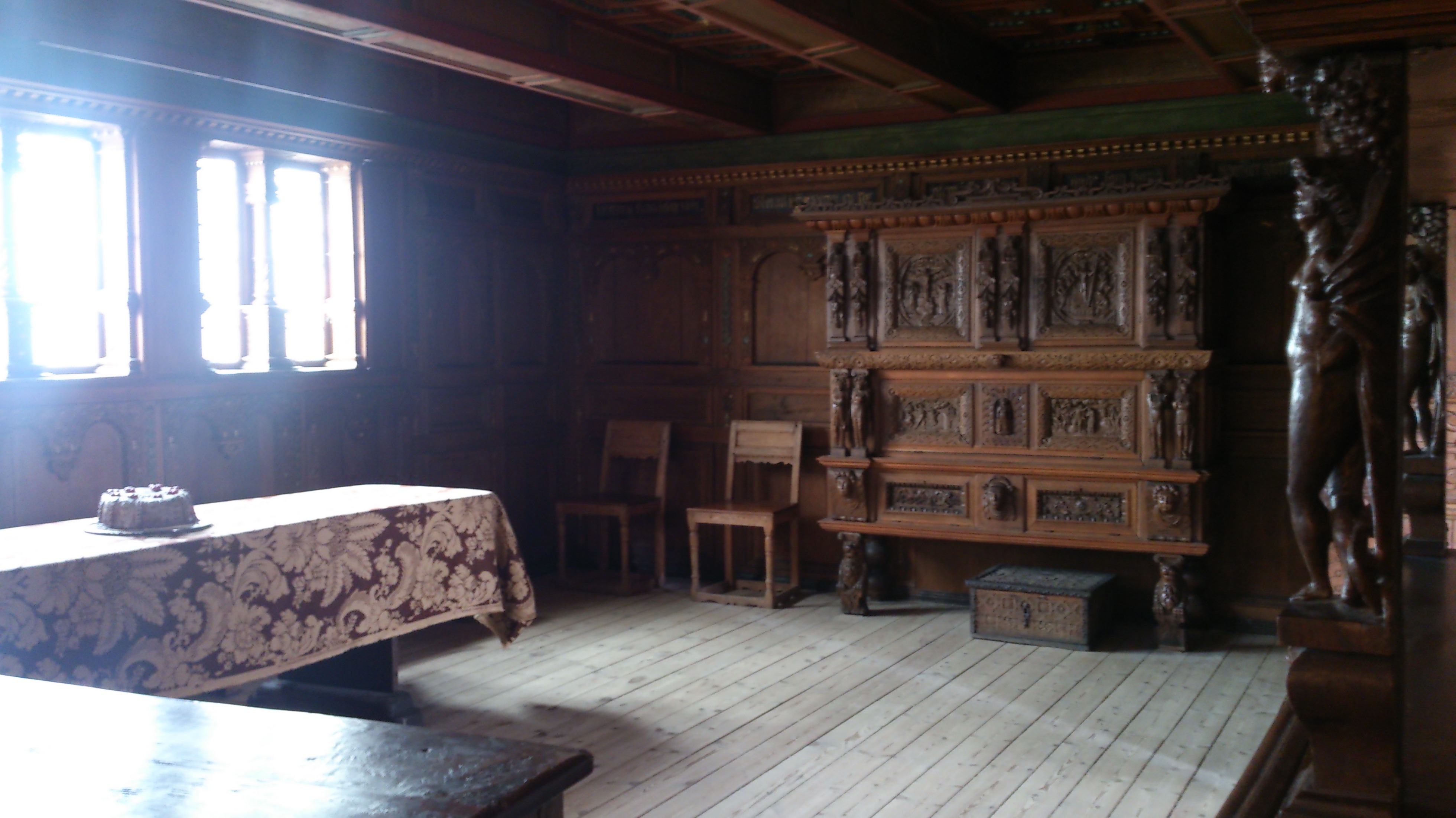 Danish renaissance wooden living room from 1602. Exhibited at Aalborg Historiske Museum in Denmark